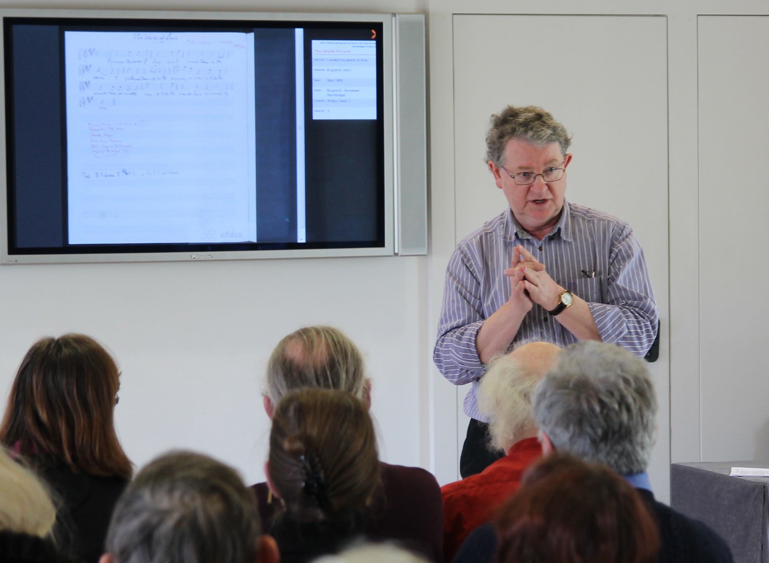 Steve Roud, the English folklorist and creator of the Roud Folksong Index, speaking at an event for the launch of the Full English website at Clare College Cambridge in March 2014.